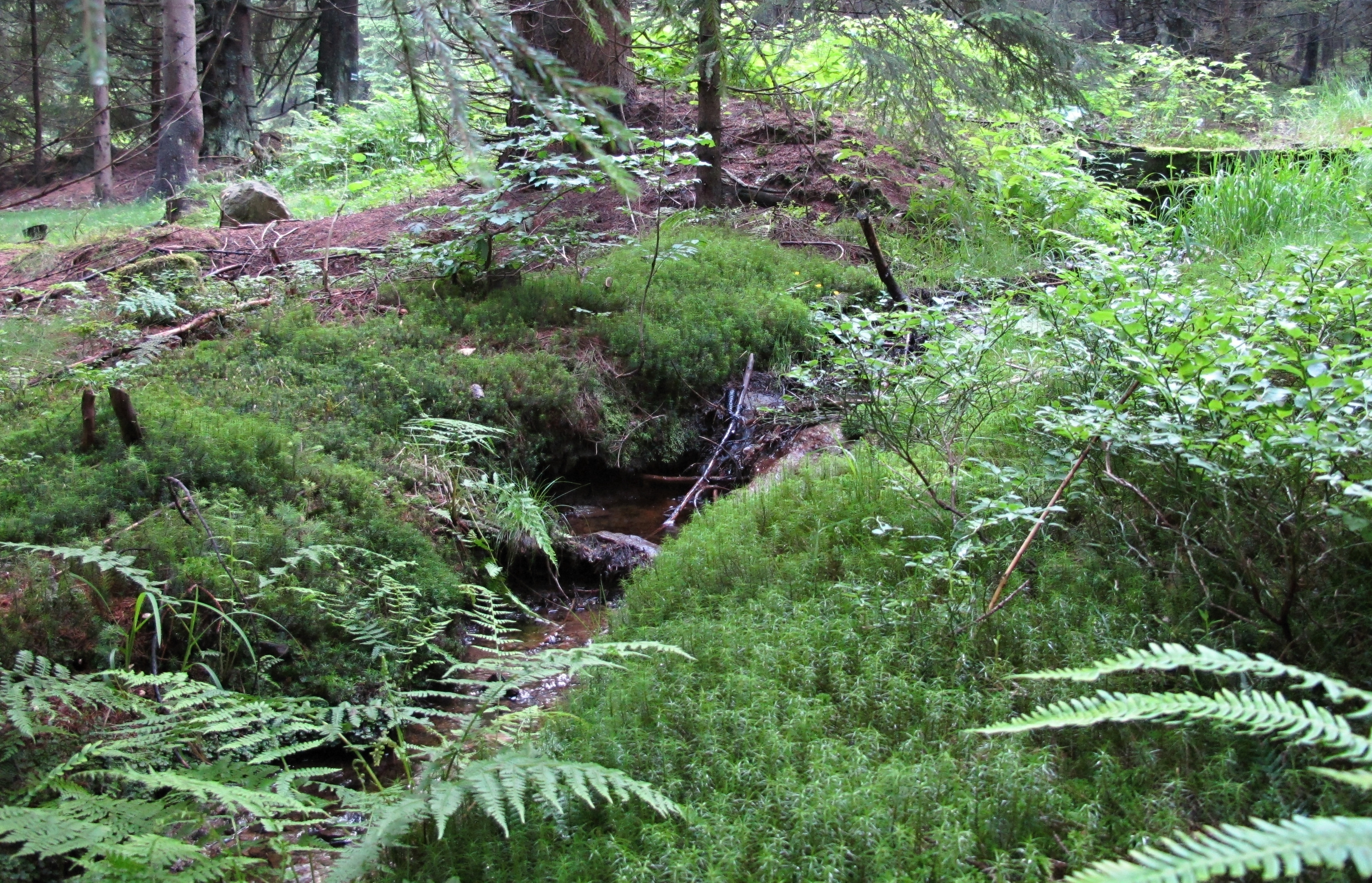 Spring of the Řezná (Regen) River in nature reserve Prameniště near Železná Ruda in Klatovy District